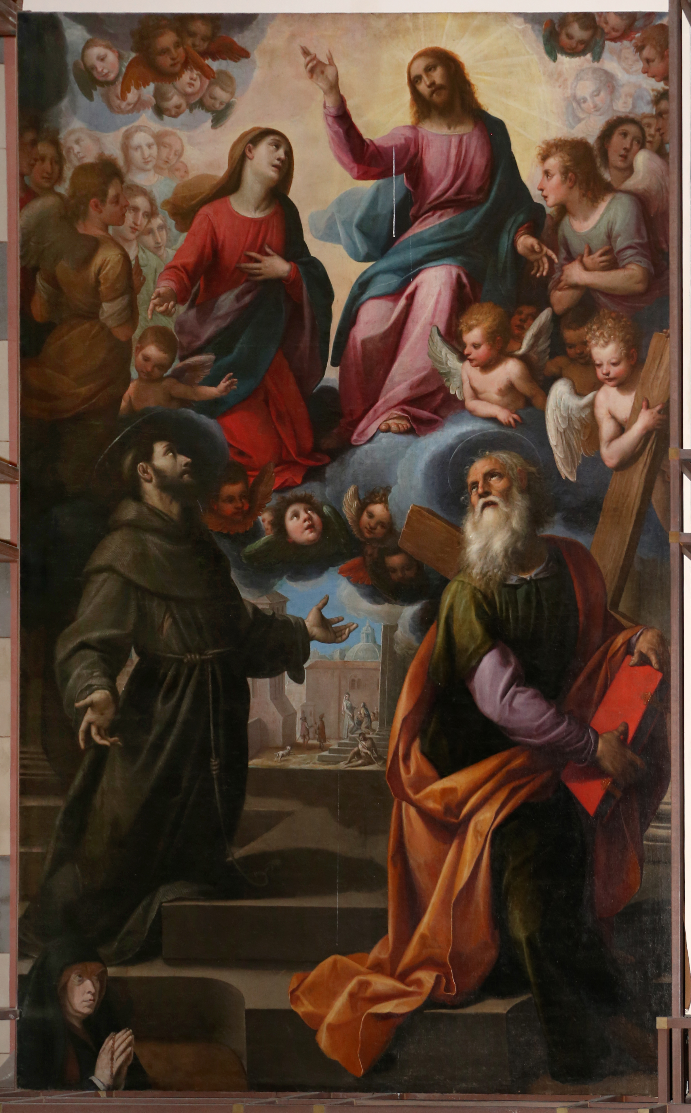 Basilica of San Francesco (Siena)